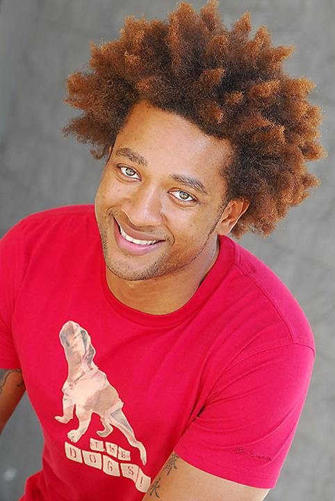 Parker Somerville, from the TV show Big Brother: 'Til Death Do You Part